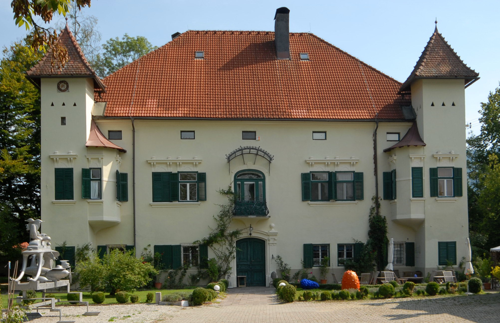 Castle Ebenau in Weizelsdorf #1, market town Feistritz im Rosental, district Klagenfurt Land, Carinthia, Austria, EU